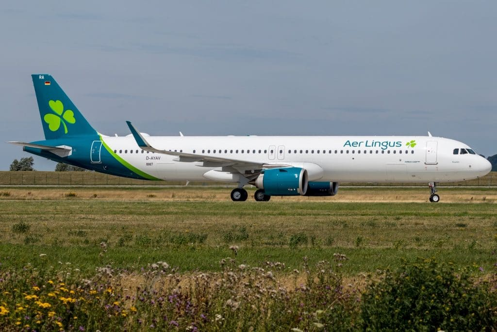 Plane taxiing.